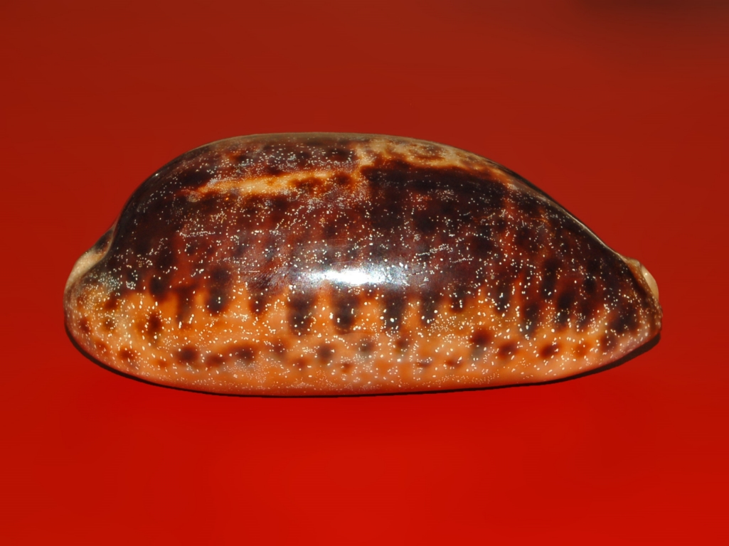 Chelycypraea testudinaria